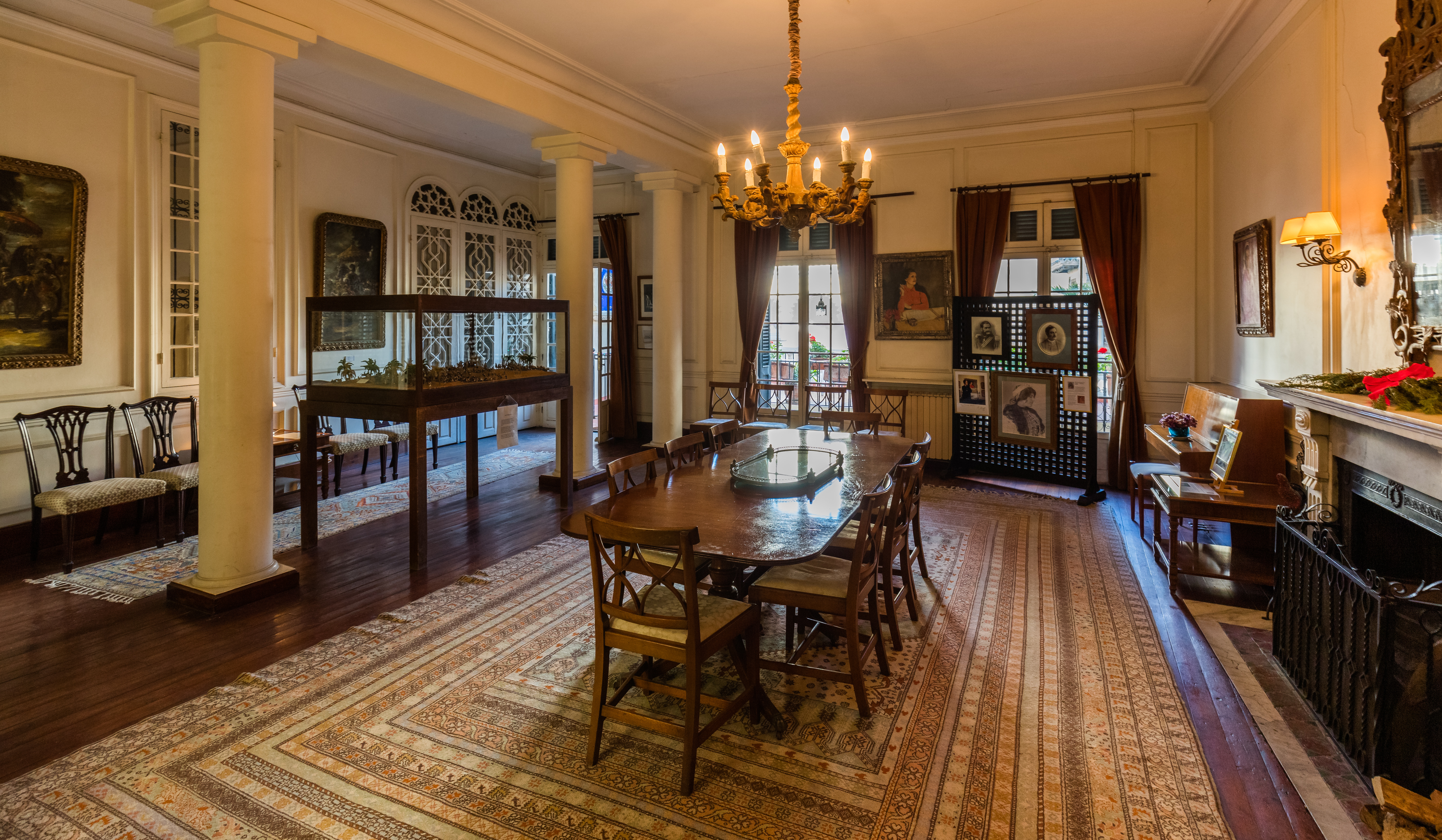 Old American Legation Museum, Tangier, Morocco